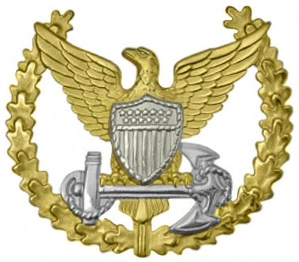 USCG Command Ashore Pin